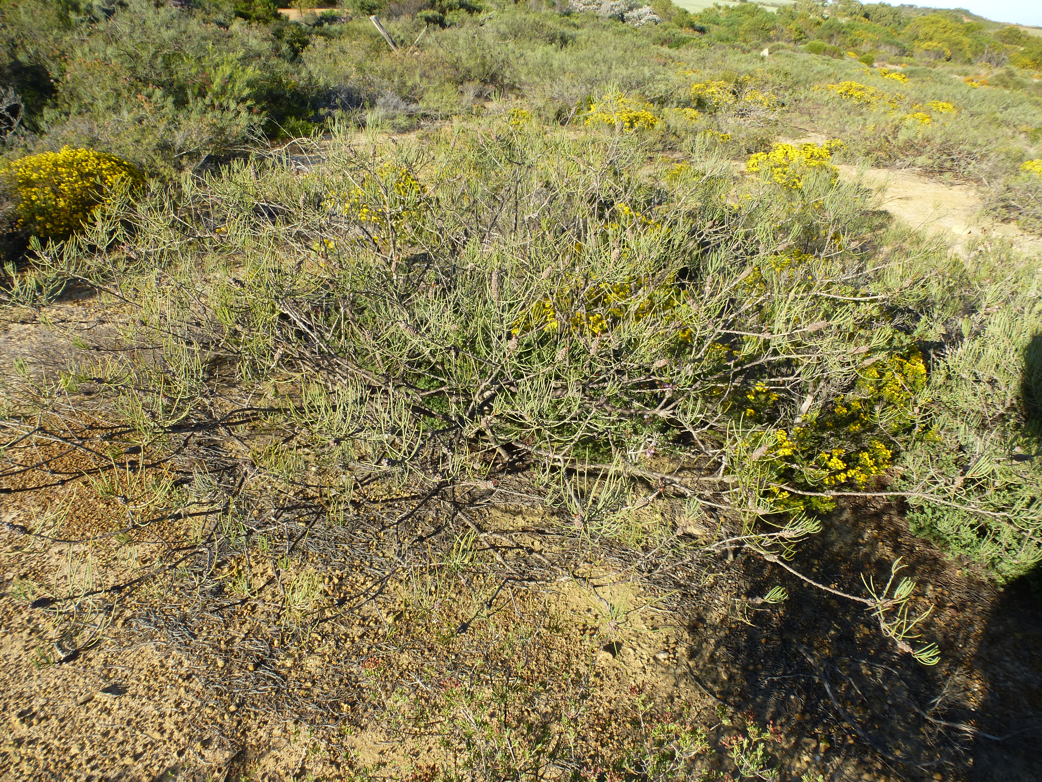 Melaleuca filifolia growing on White Peak Road near Geraldton